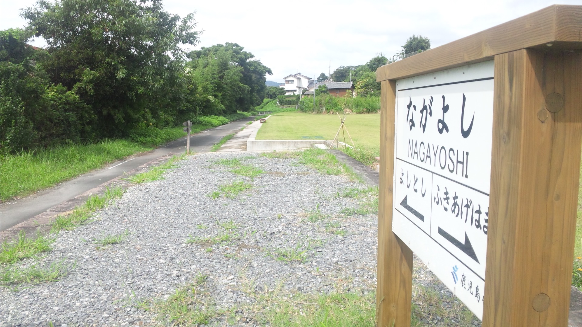 Ruin of Nagayoshi Station on the abolished Kagoshima Kotsu Makurazaki Line